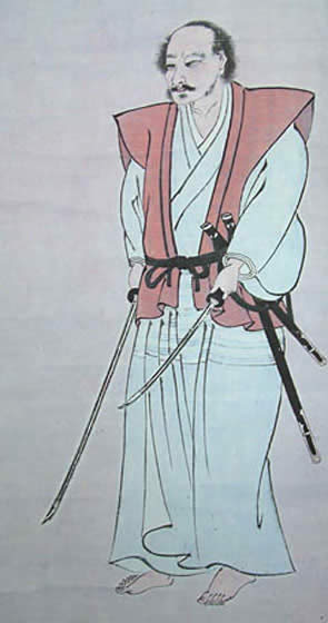 Miyamoto Musashi, self-portrait